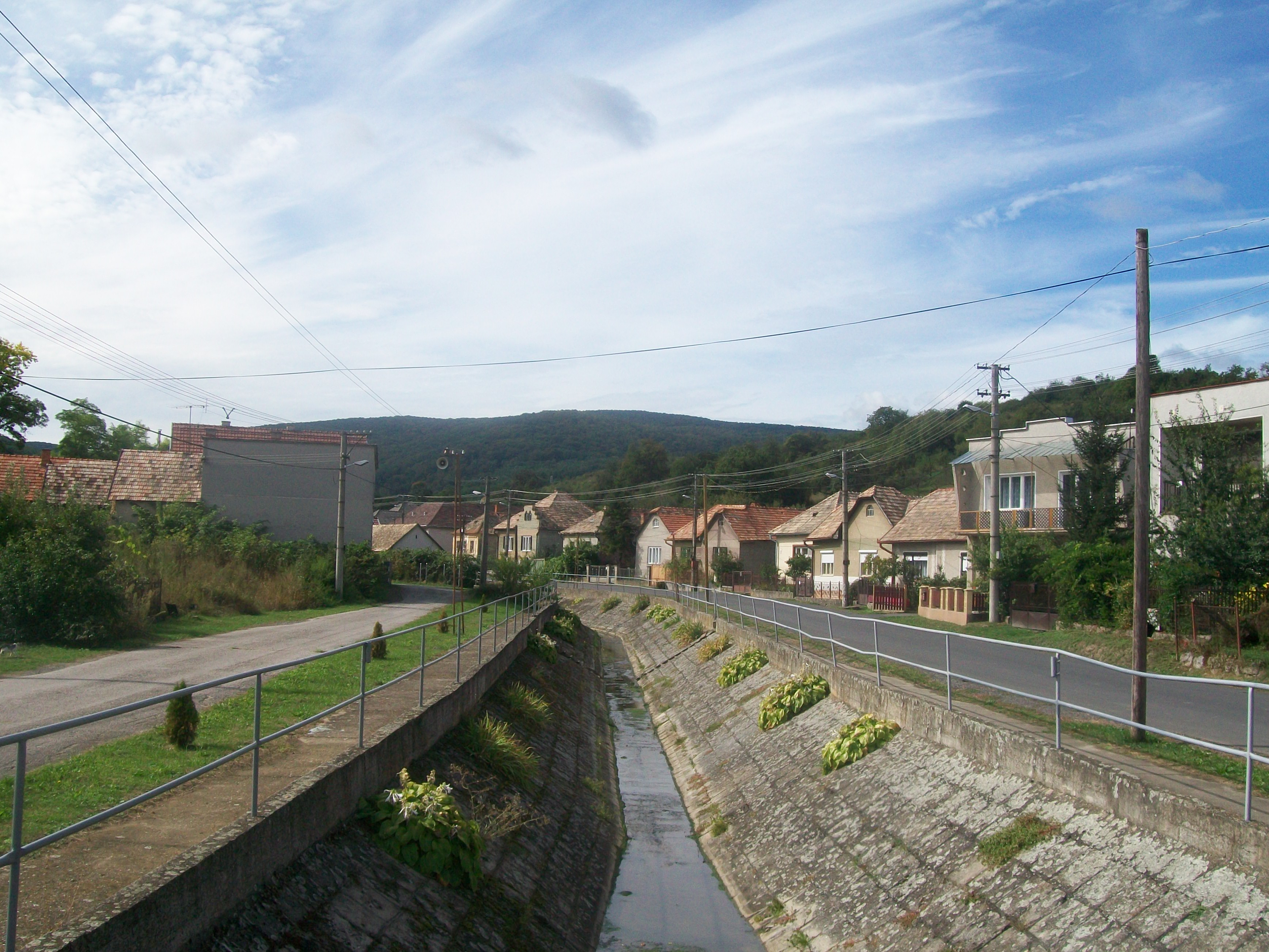 Čamovský stream flowing through the village Šurice